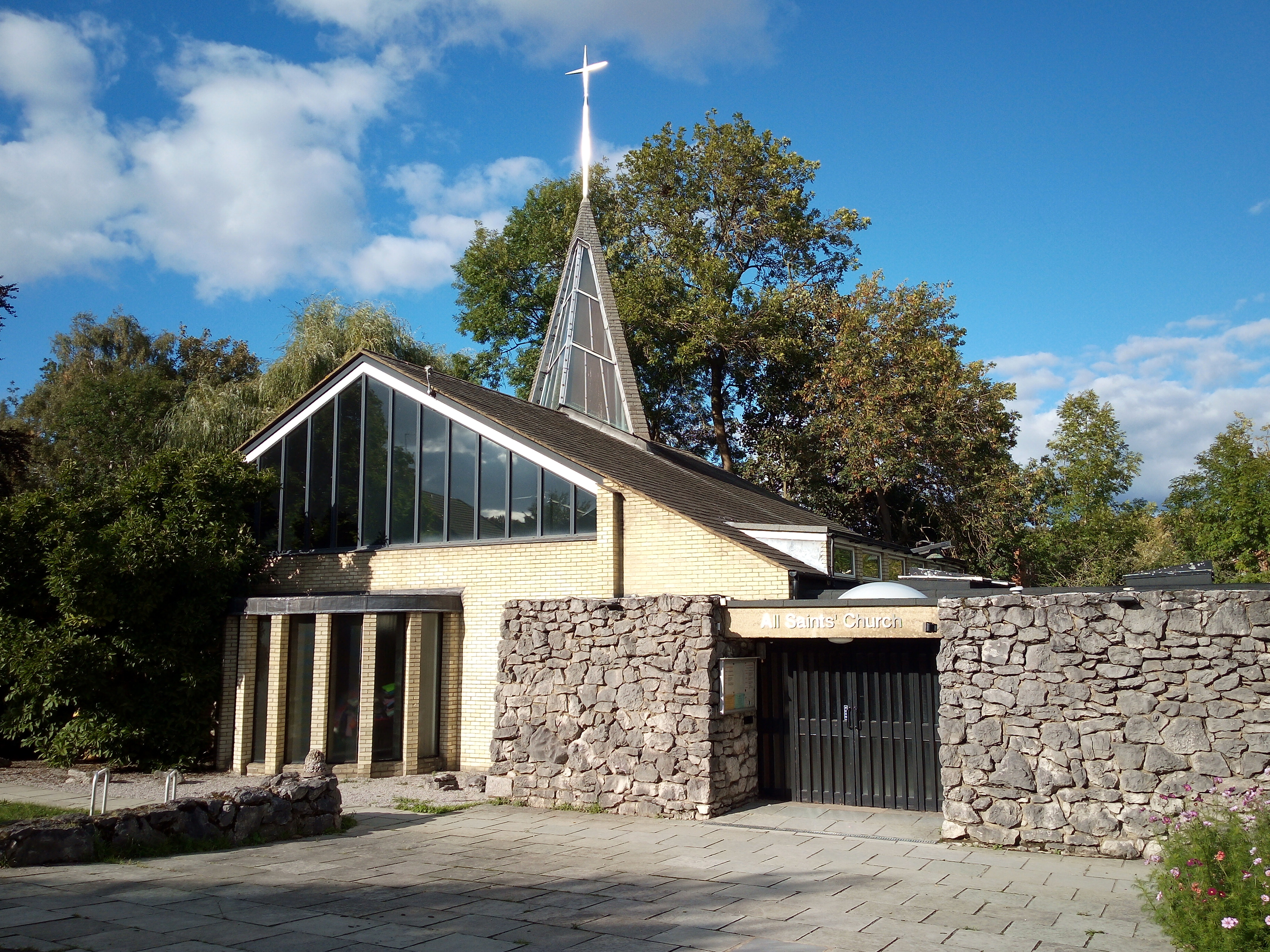 All Saint's Church Harpenden taken on 23/9/2018